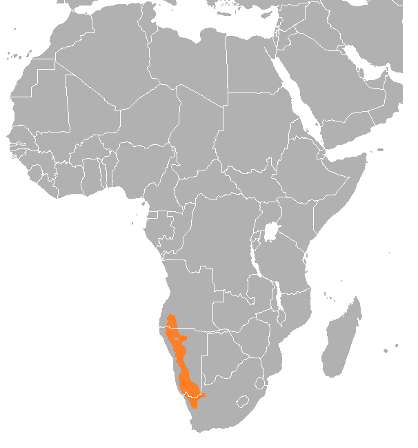 The range of the Dassie Rat in Southern Africa